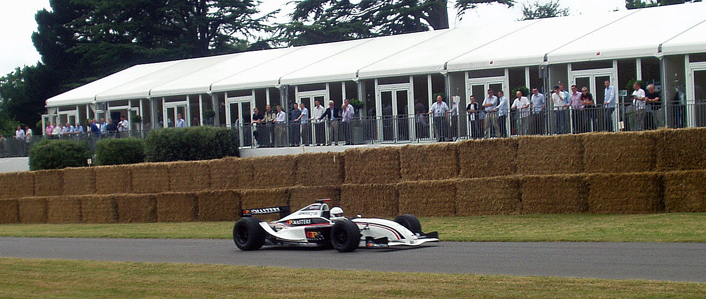 A 2005 Grand Prix Masters car being driven up the hill at the 2006 Goodwood Festival of Speed.